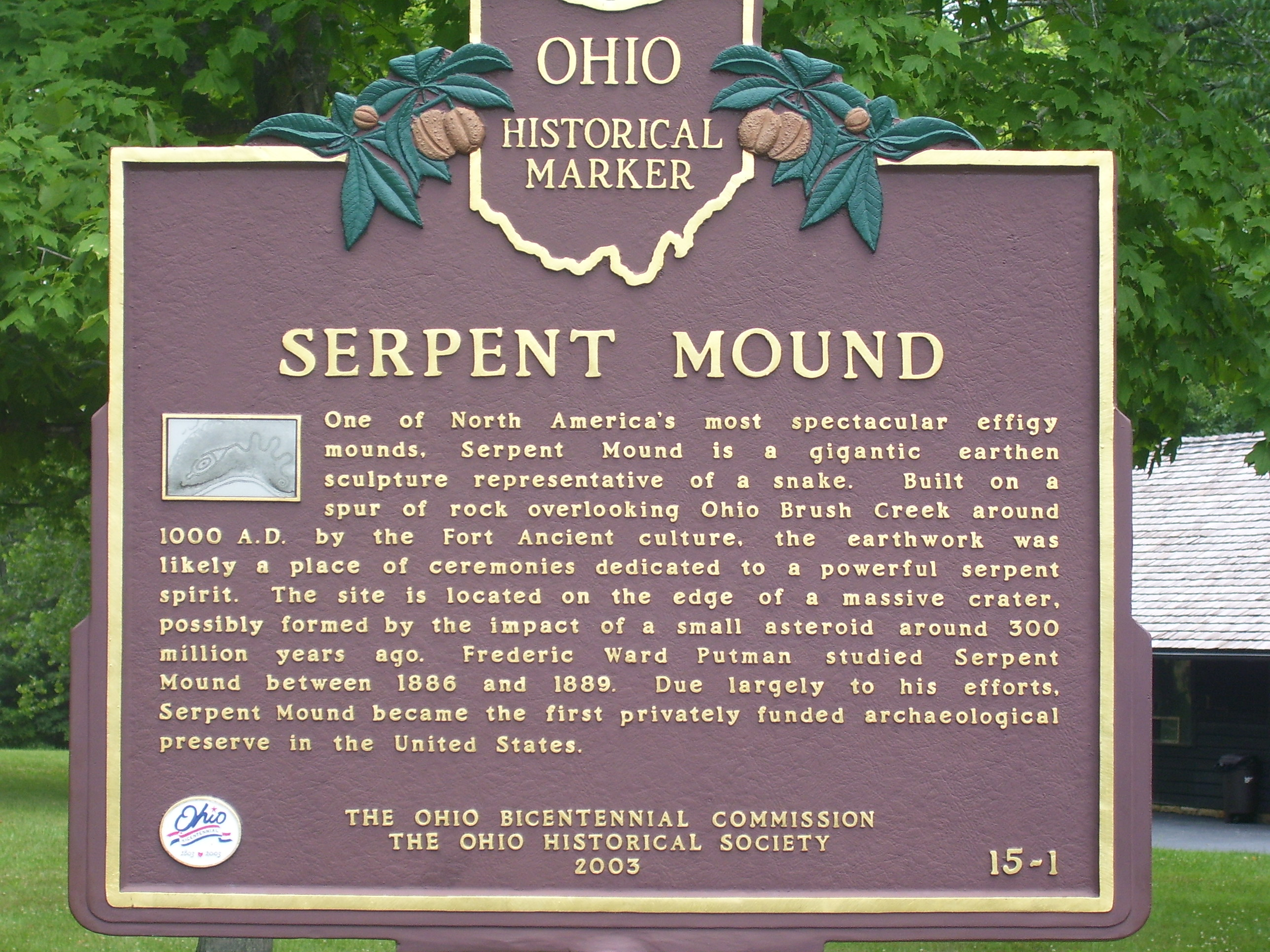 Image of the Serpent Mound plaque